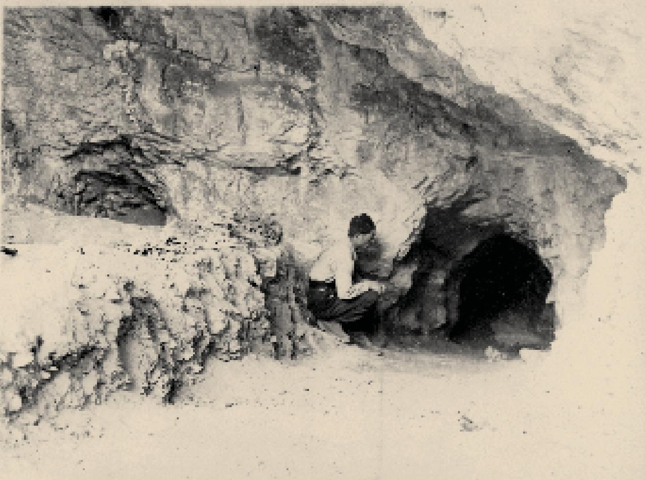 The Füzér-kő Cave in Hungary.